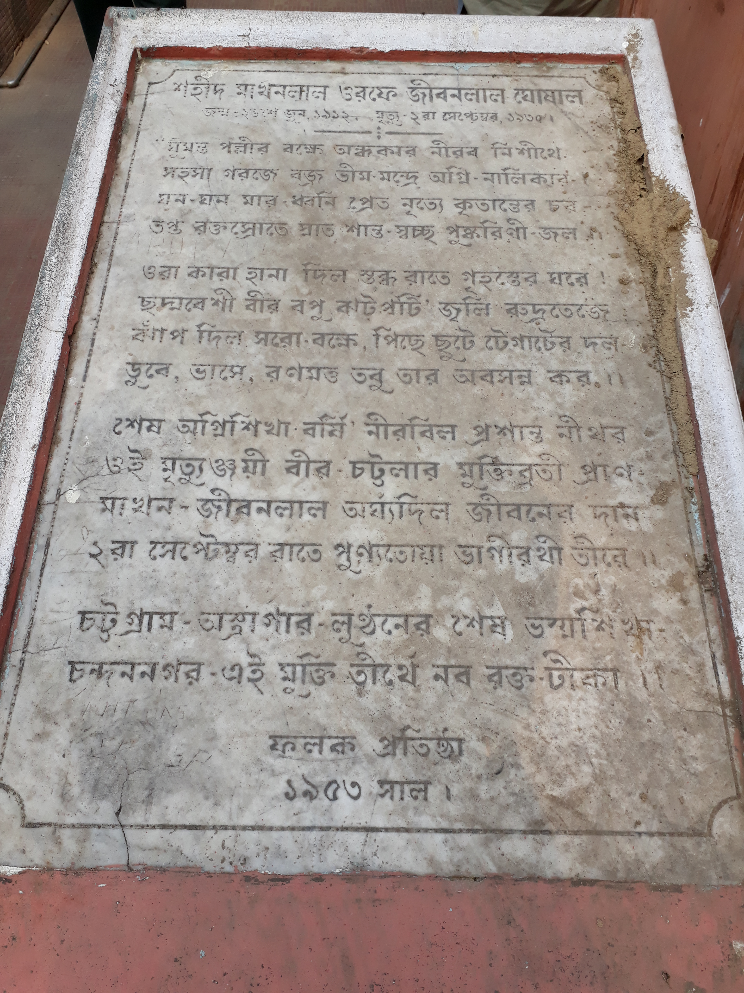 চট্টগ্রাম বিদ্রোহের তরুন জীবন ঘোষাল ওরফে মাখনলাল শহীদ হন চন্দননগরে। বোড়াইচন্ডীতলা ঘাটে তার স্মৃতিফলক।